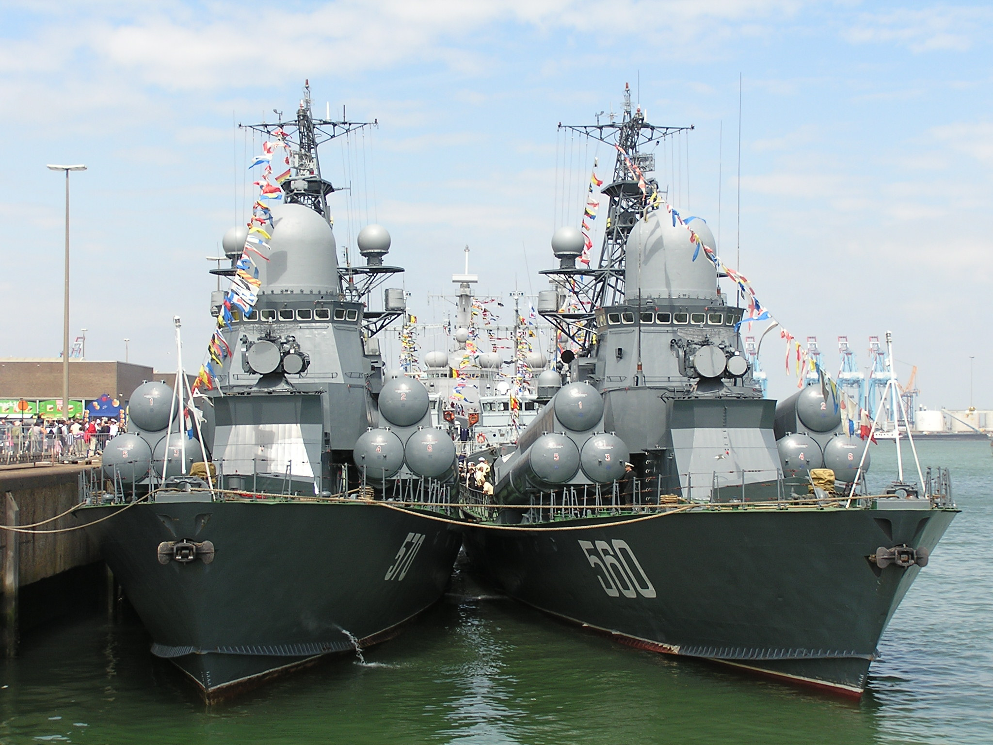 Russian small missile ships Zyb' and Passat at the Zeebrugge Naval Festival, 28th June 2008.